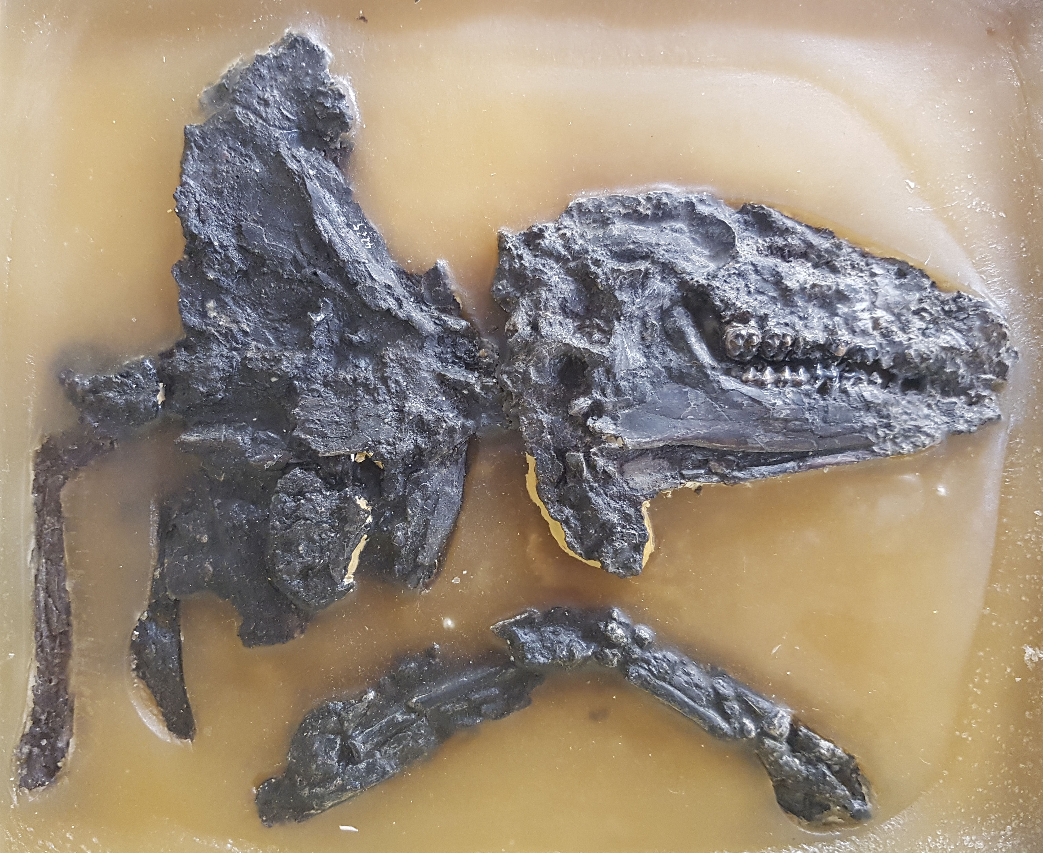 skull of Amphirhagatherium from the Geiseltal, Germany, Middle Eocene; took the picture in the Geiseltalmuseum, Halle (Saxony-Anhalt)